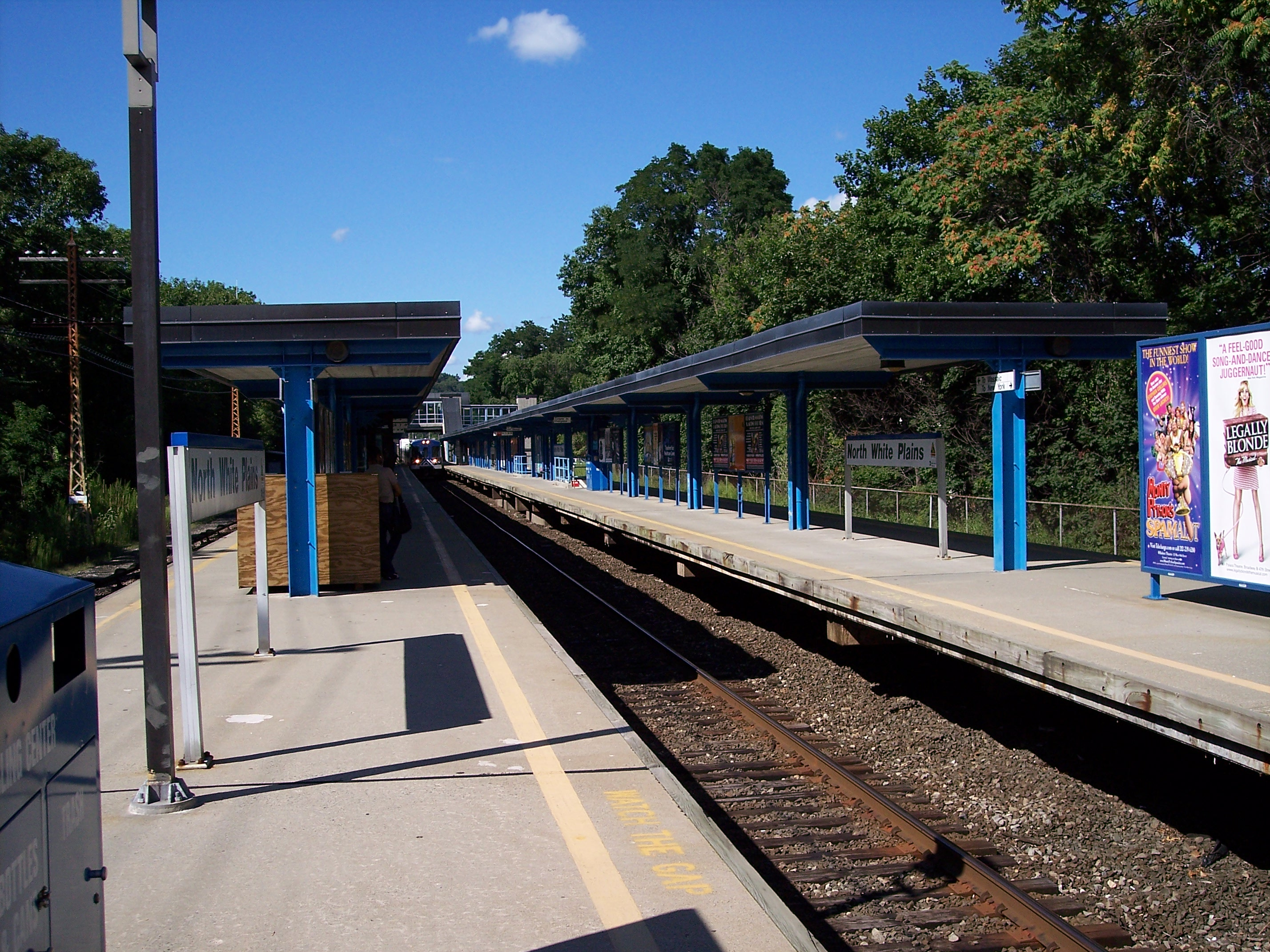 North White Plains train station on the Metro-North Railroad Harlem Line. View is from the New York-bound platform looking north toward Brewster.